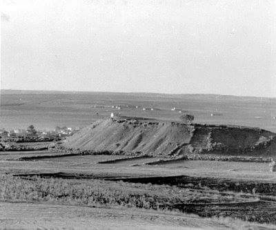 Photo of village Iraq al-Manshiyya and tell (archaeological mound), near to where Kiryat Gat is now built